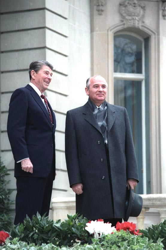 President Reagan's first meeting with Soviet General Secretary Gorbachev at Fleur D'Eau during the Geneva Summit in Switzerland.